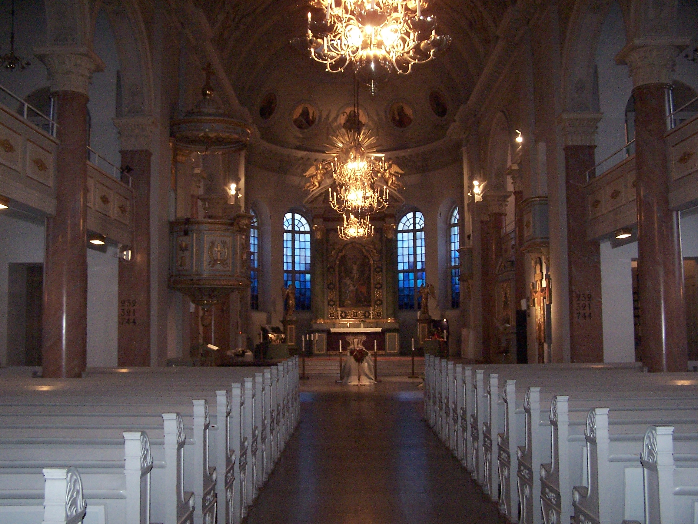 The interior of Cathedral of Härnösand, Sweden